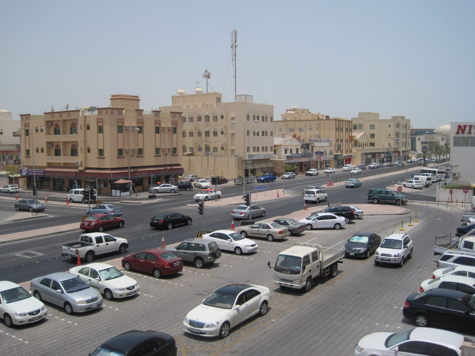 (cc) Shashi Bellamkonda credit as above if using this pictur